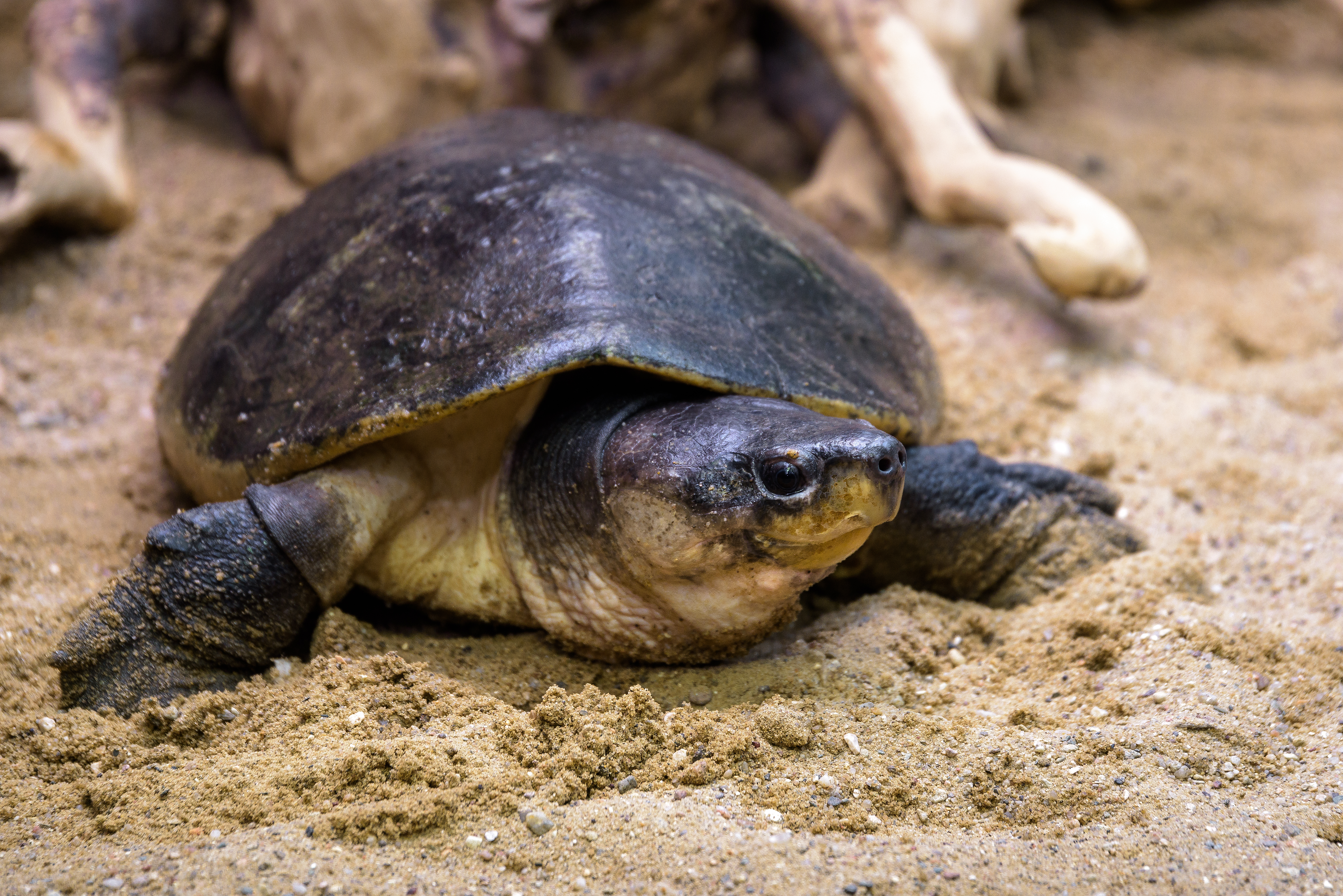 Orlitia borneensis in Prague Zoo